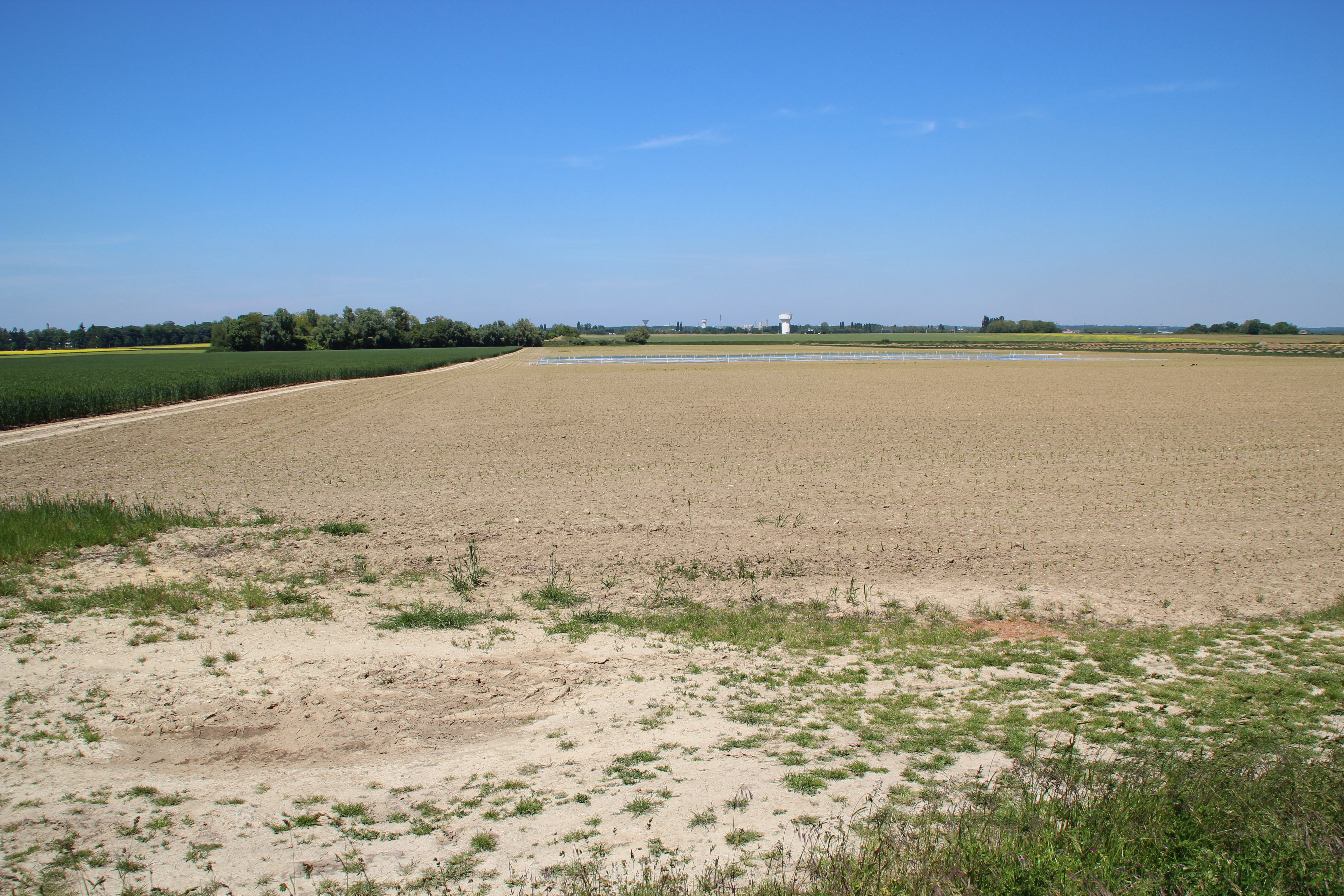 Saclay's plateau Francis Perrin street on June 4, 2013 in Gif-sur-Yvette, France.